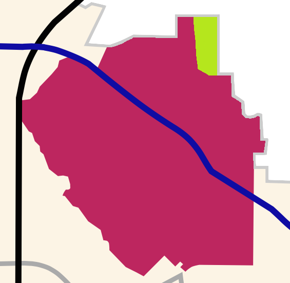 Fixed boundary.